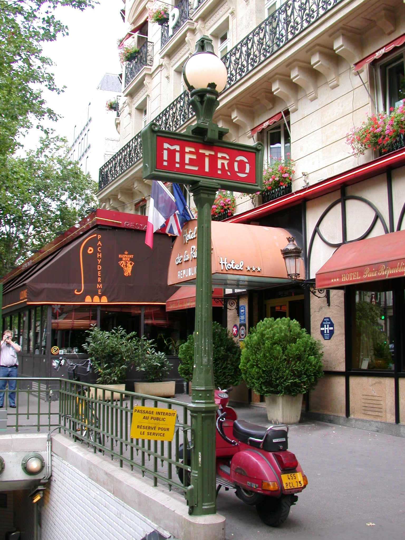 Old metro sign, Paris, France. Photo by (WT-shared) Riggwelter, August 2006.